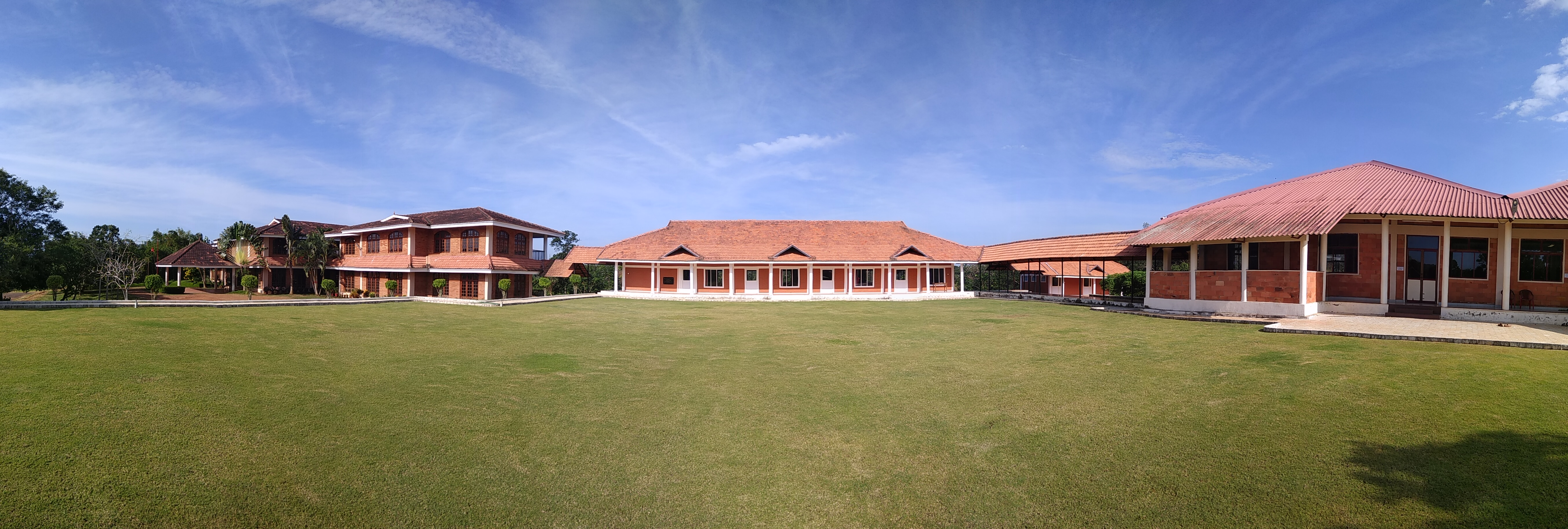 EMS Academy is a institution owned by CPIM Kerala State committee